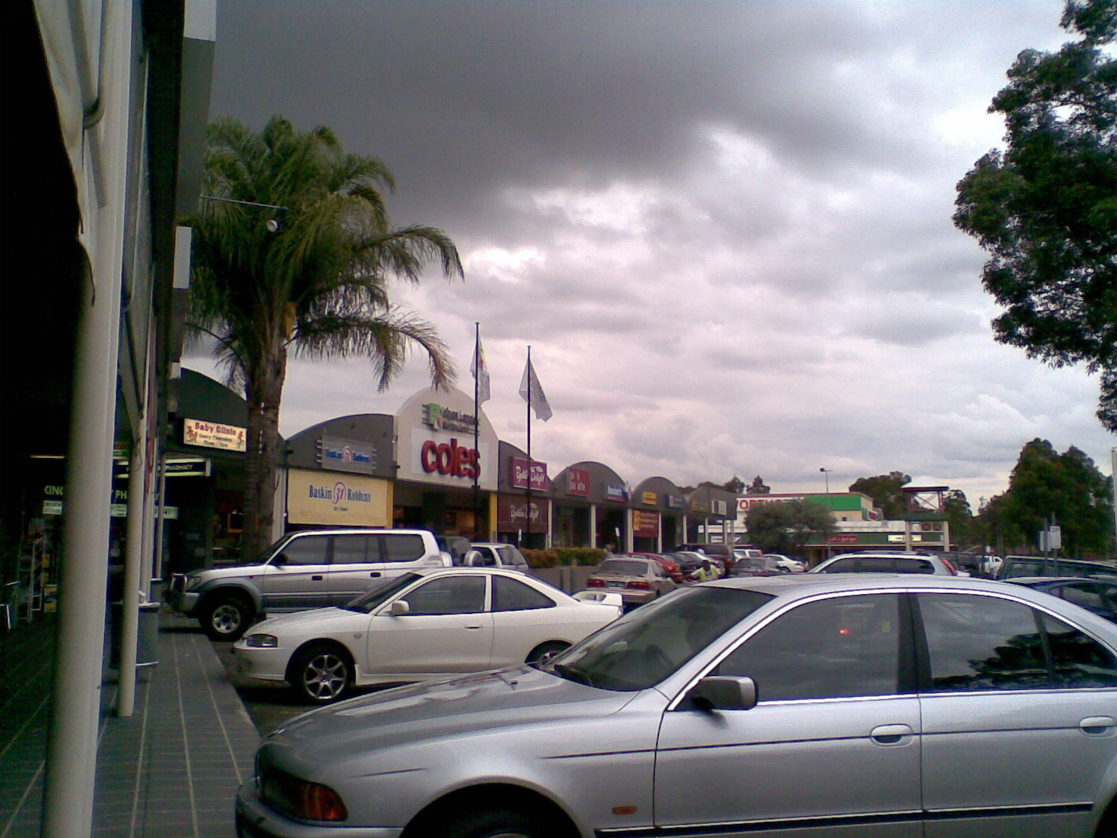 Coles supermarket at Kings Langley Shopping Centre